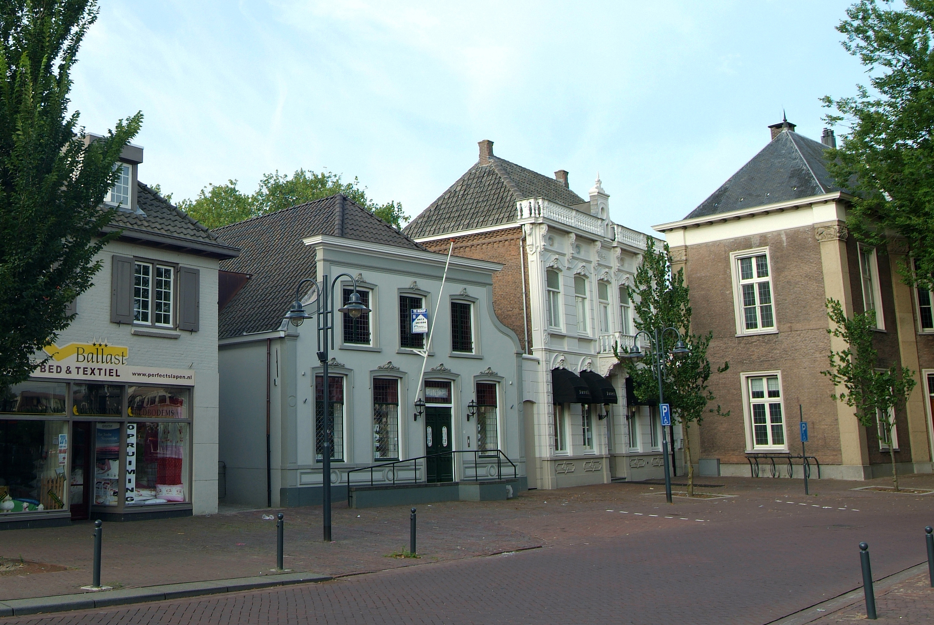 Monumental buildings on the Hoofdstraat (Main Street) in Veghel, located at the old marketplace / market square